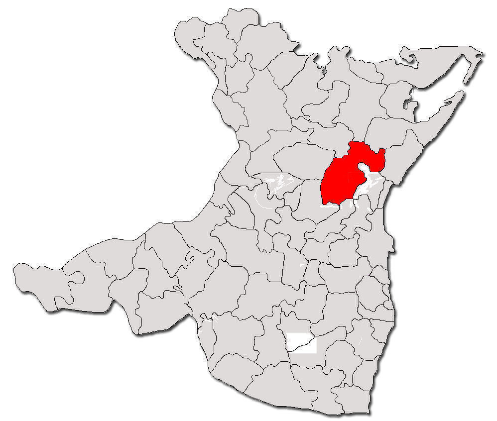 Contour of Kogalniceanu commune